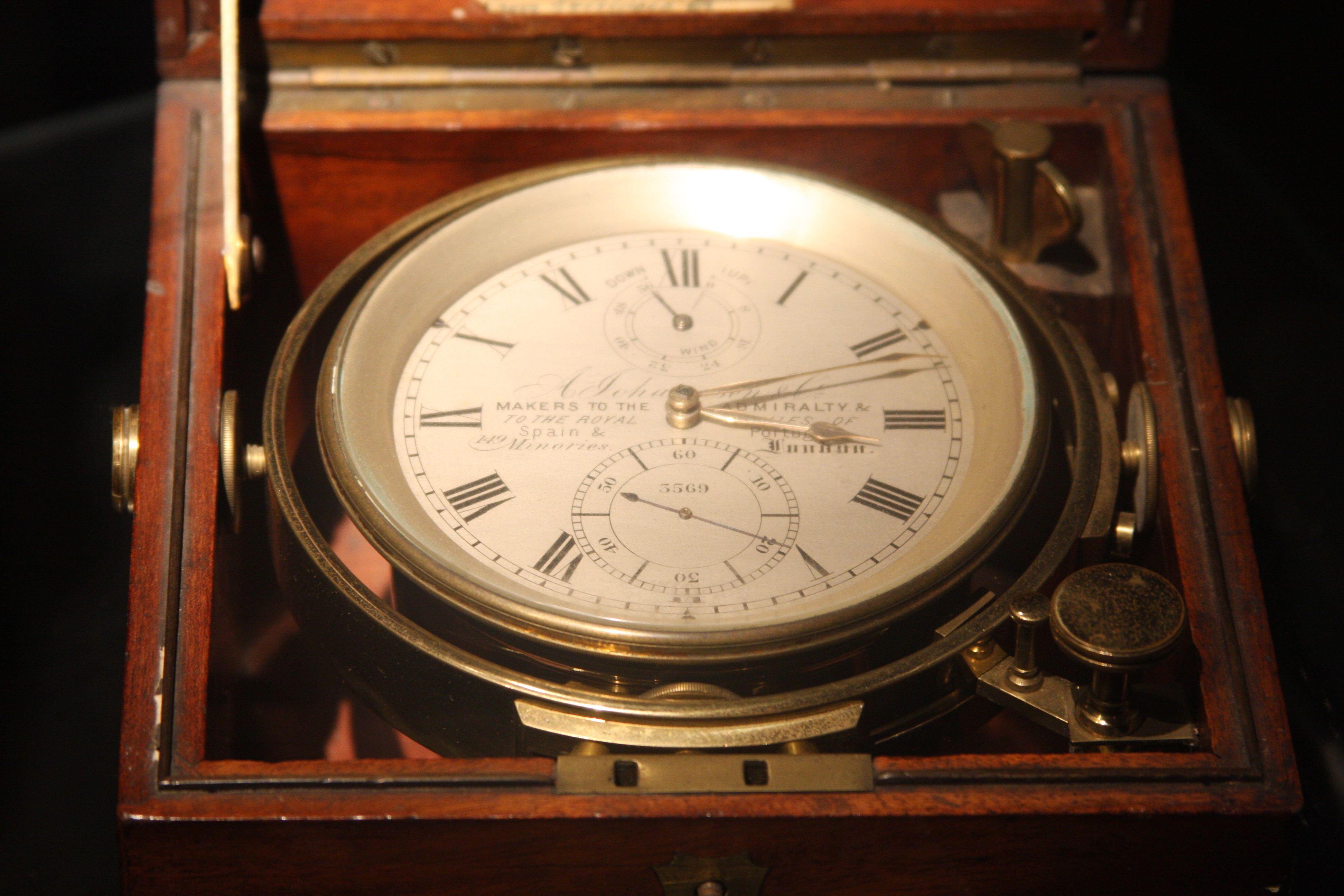 John Harrison ship chronometer, between 1761 and 1800. Great Brittain. Technical Museum, Oslo, Norway.